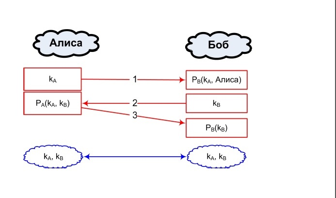 Graphic description of The Needham-Schroeder public-key protocol's work